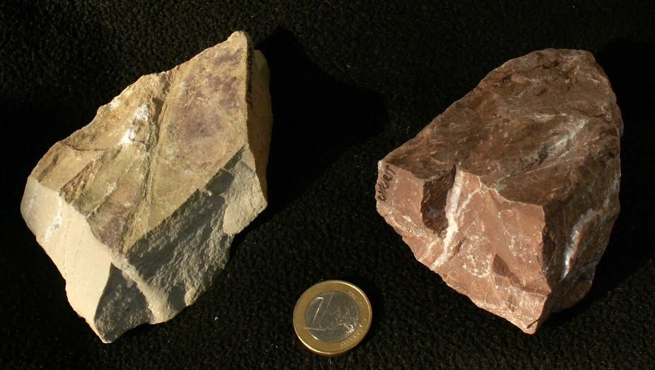 Two Jurassic radiolarite samples from Western Carpathians, Slovakia.